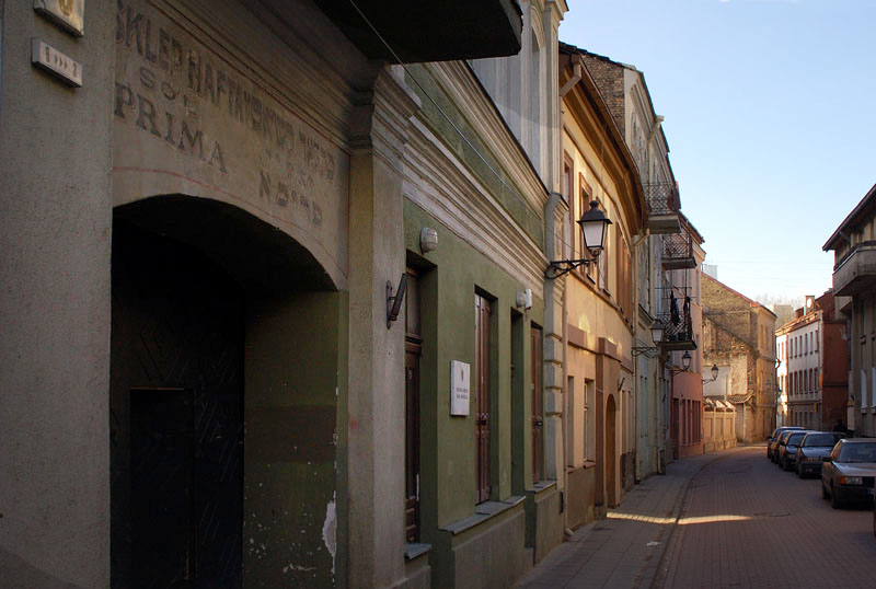 Zemaitijos str. in Vilnius, Lithuania